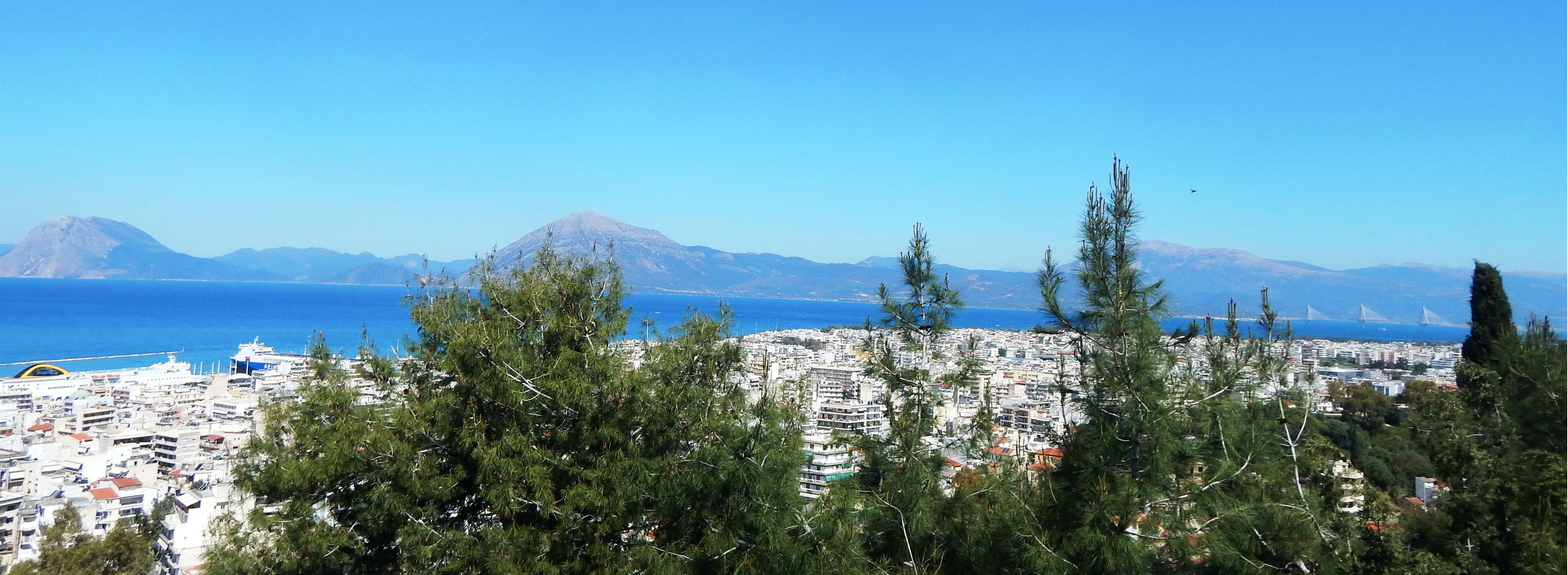 View of Patras from Dasylio overlooking the Corinthian Gulf with the Rio Antirrio Bridge. Varasova, Paliovouna and the Nafpakti Mountains are opposite.